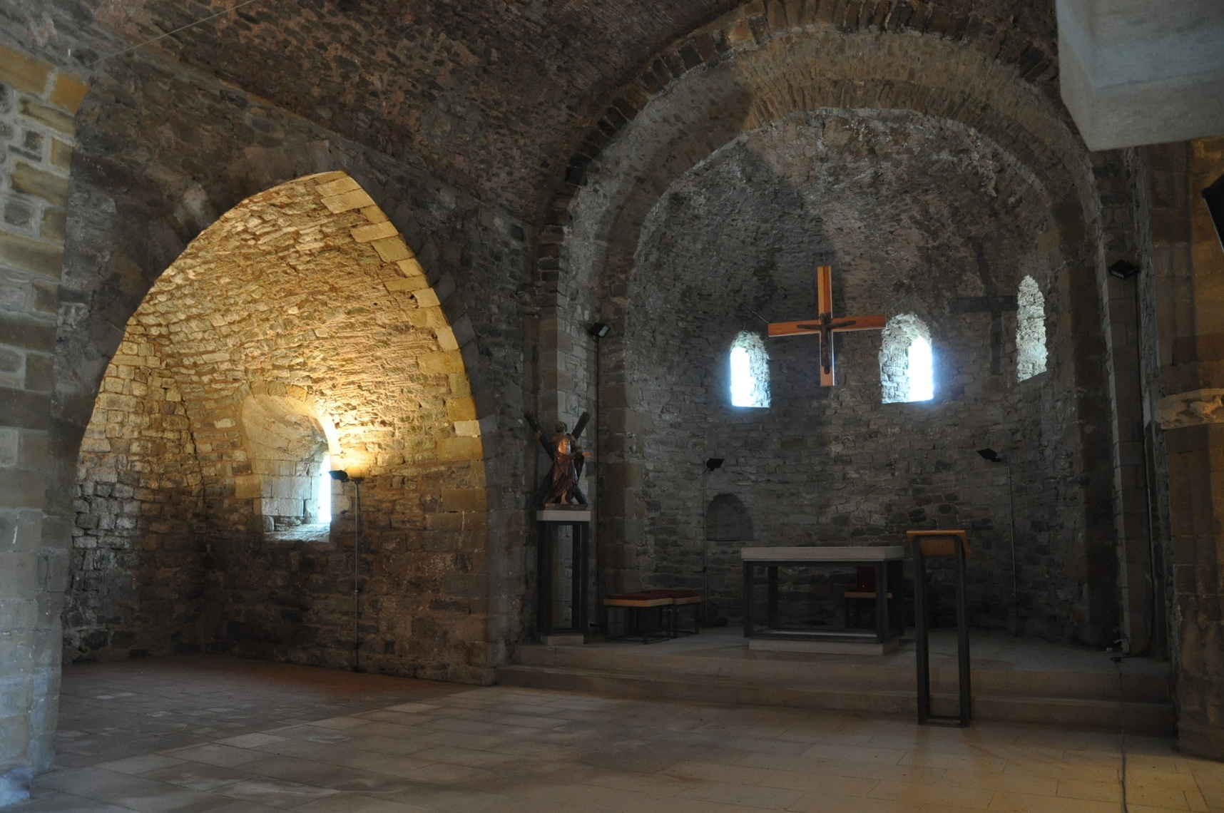 Interior of the Sant Andreu del Castell, a church in Tona (Catalonia, Spain).